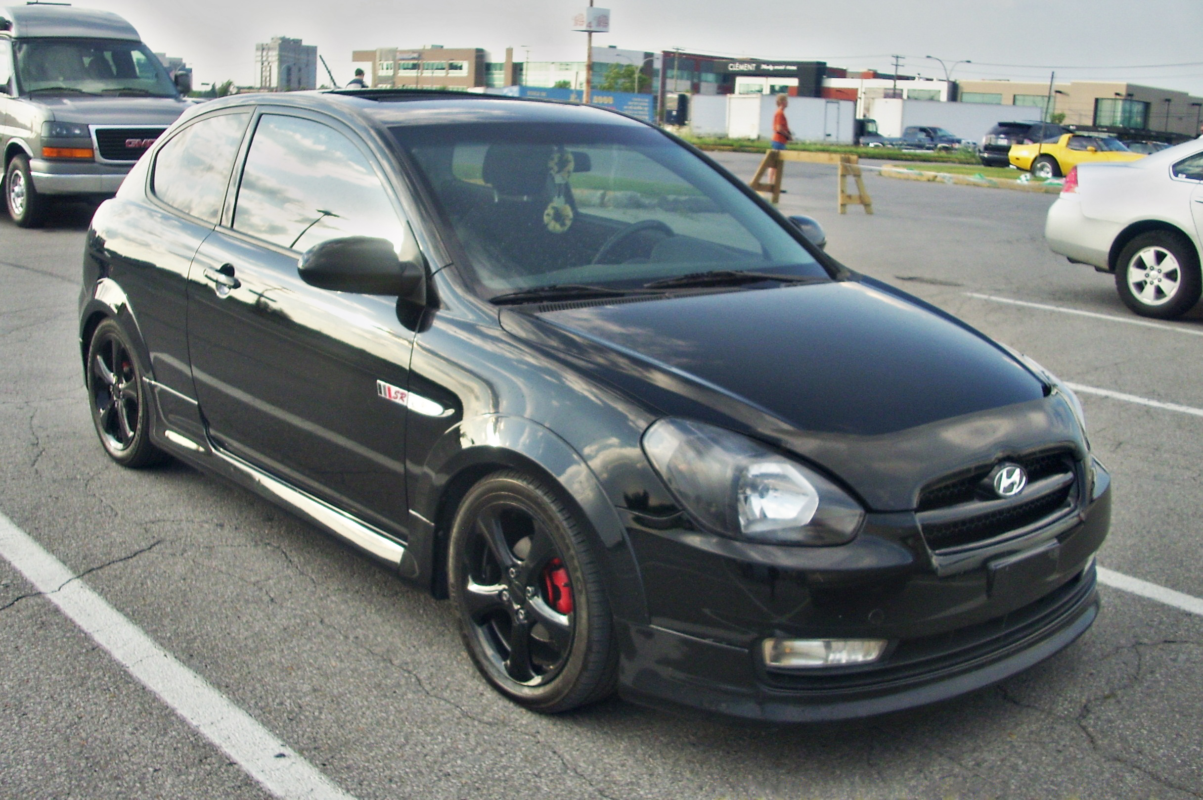 2007 Hyundai Accent SR photographed in Laval, Quebec, Canada at Les chauds vendredis 2010.